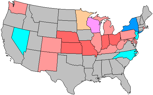 Summary of party change of U.S. house seats in the 1918 House election. Stripes indicate a tie between the gains of two or more parties. Legend: 6+ Democratic seat pickup 3-5 Democratic seat pickup 1-2 Democratic seat pickup 1-2 Republican seat pickup 3-5 Republican seat pickup 6+ Republican seat pickup 1-2 Progressive seat pickup 1-2 Farmer-Labor seat pickup 1-2 Socialist seat pickup Note: years ending in 2 may have inconsistent results due to redistricting.